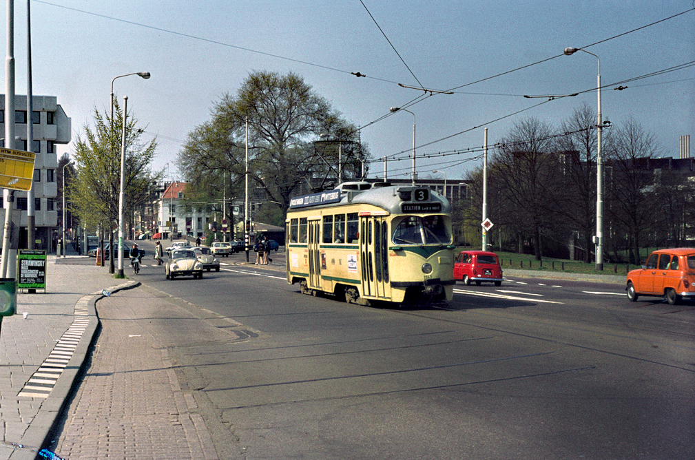 PCC on route nr.3, Bezuidenhoutseweg, The Hague, before 1976